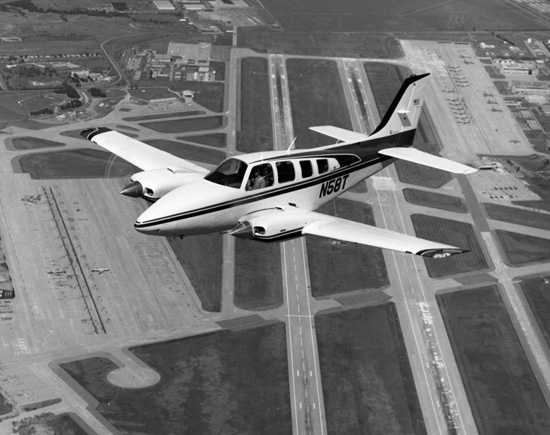 A Baron 58 in flight over a runway